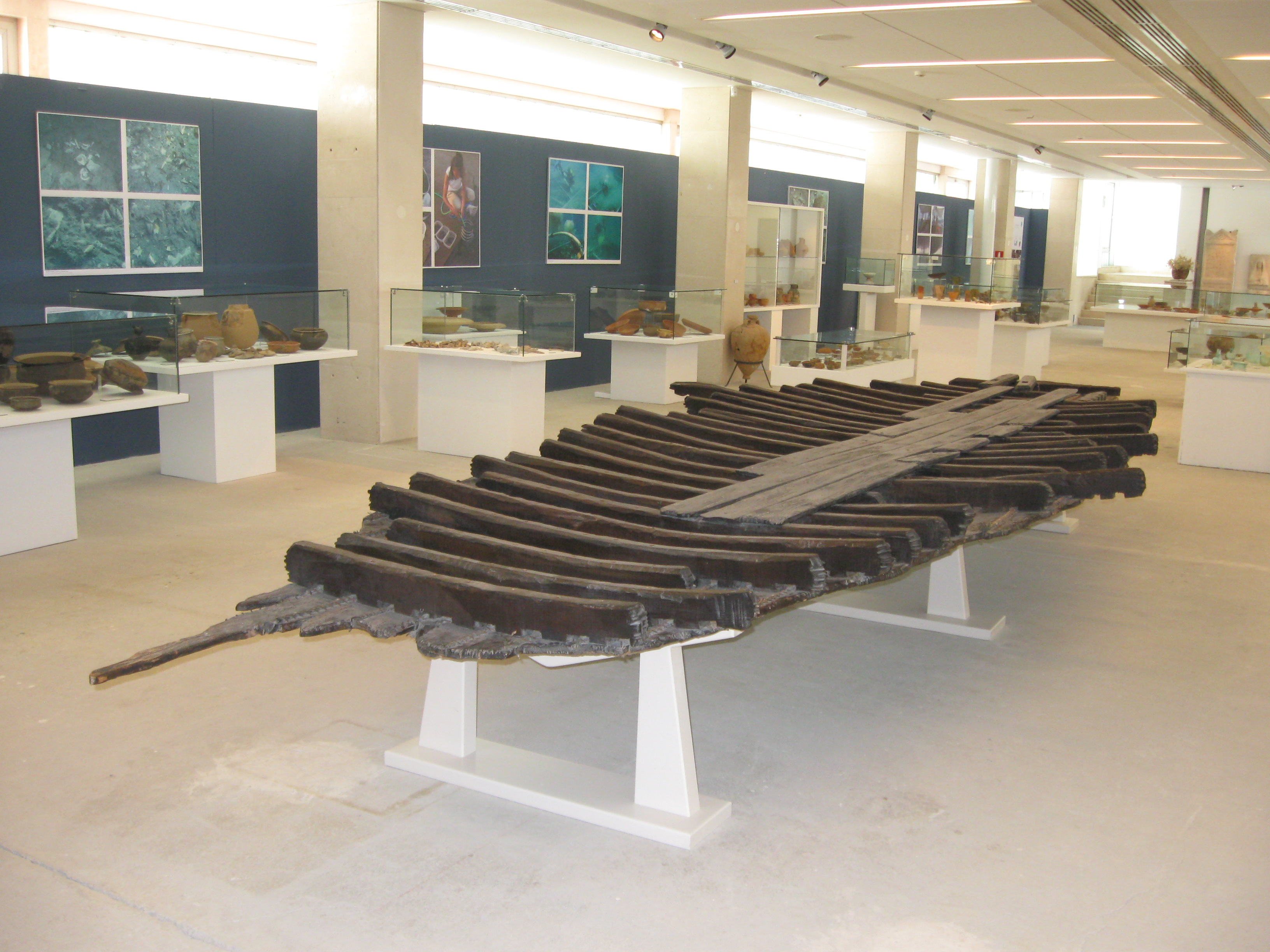 Archeological museum of Zadar. Underwater Archaeology Department